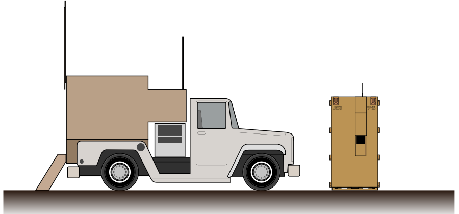 Non-Line-of-Sight Launch System (NLOS-LS) CLU+ Control_Vehicle, under developing missile system in US Army, Lockheed Martin and Raytheon